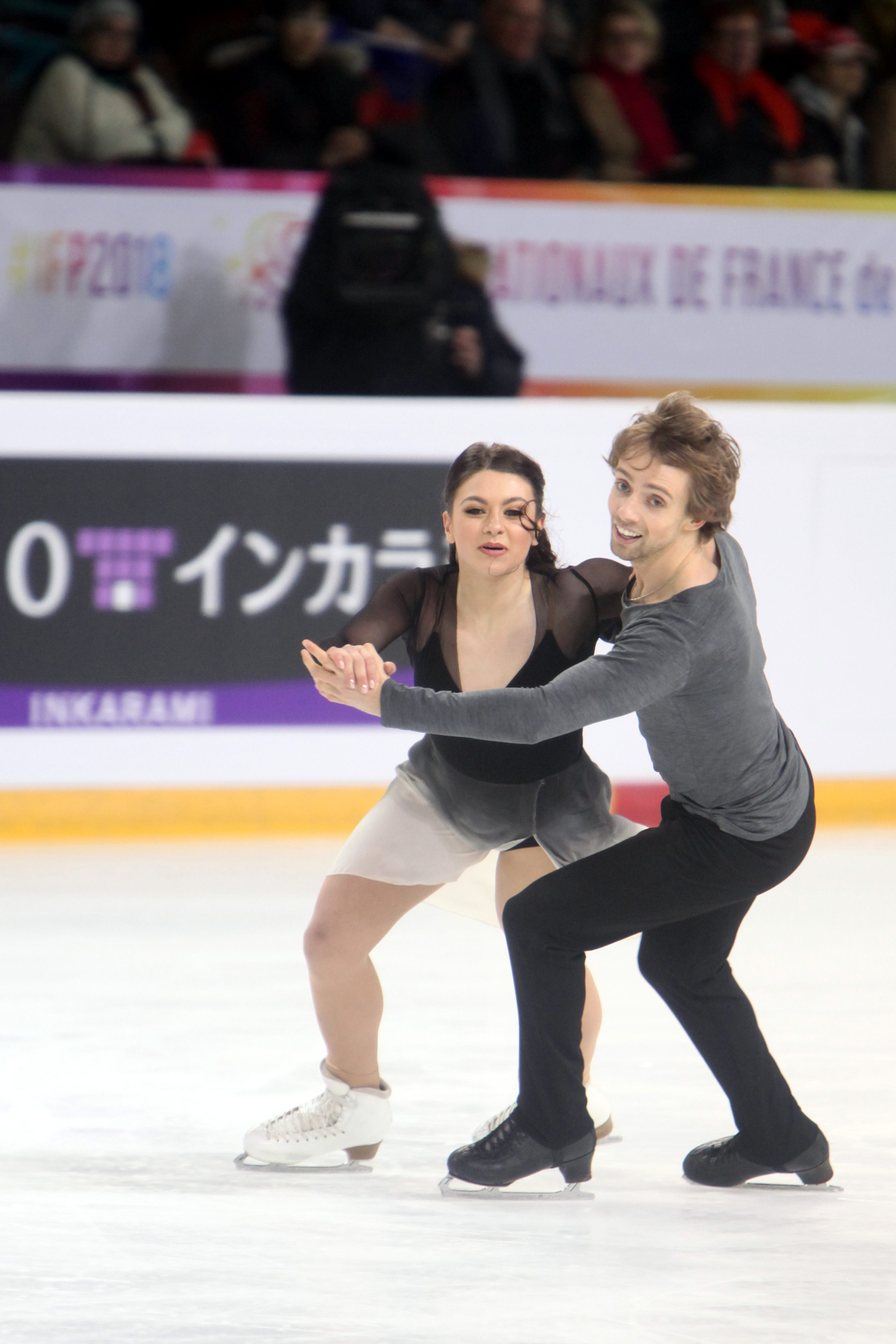 Kaitlin Hawayek and Jean-Luc Baker during the Free Dance at the Internationaux de France de Patinage 2018.